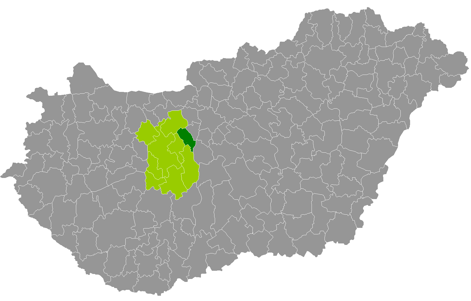 Location of Martonvásár District, Fejér, Hungary